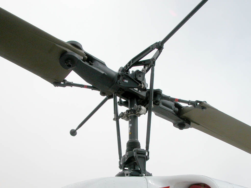 Bell 212/HH-1N rotor head